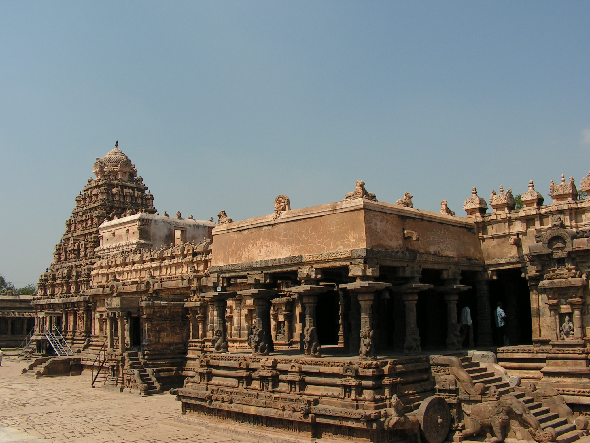 Airavateshwarar temple at Darasuram